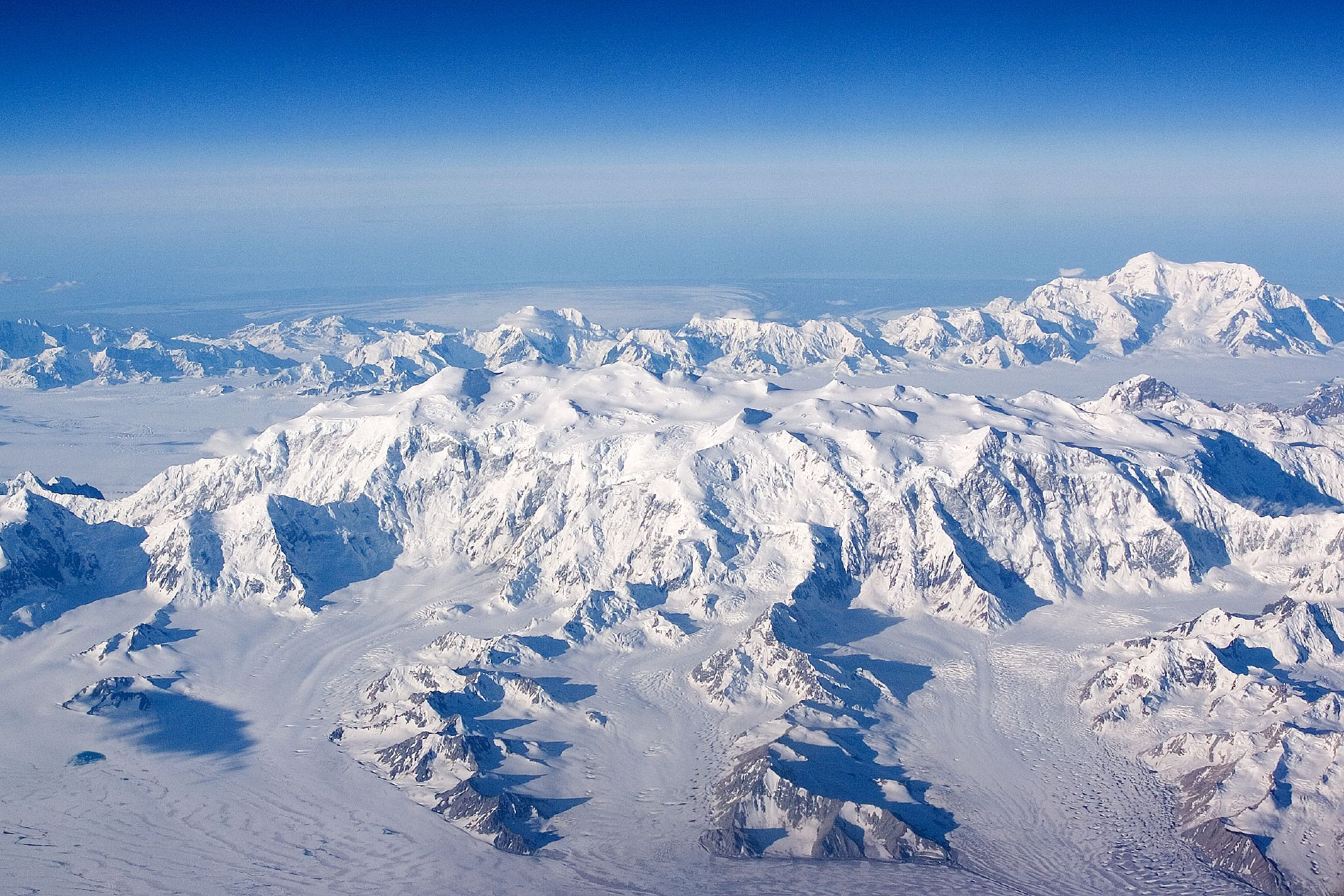 Mount Logan & Mount Saint Elias shot from 36000 feet Happened to wake up while flying over this mountain range on a beautifully clear day. (Previously misidentified as a picture of the Alaska Range, hence the filename. Actually the Saint Elias Mountains; more specifically, Mount Logan (foreground) from the north, with Mount Saint Elias right background, and the Malaspina Glacier and the Gulf of Alaska beyond.)